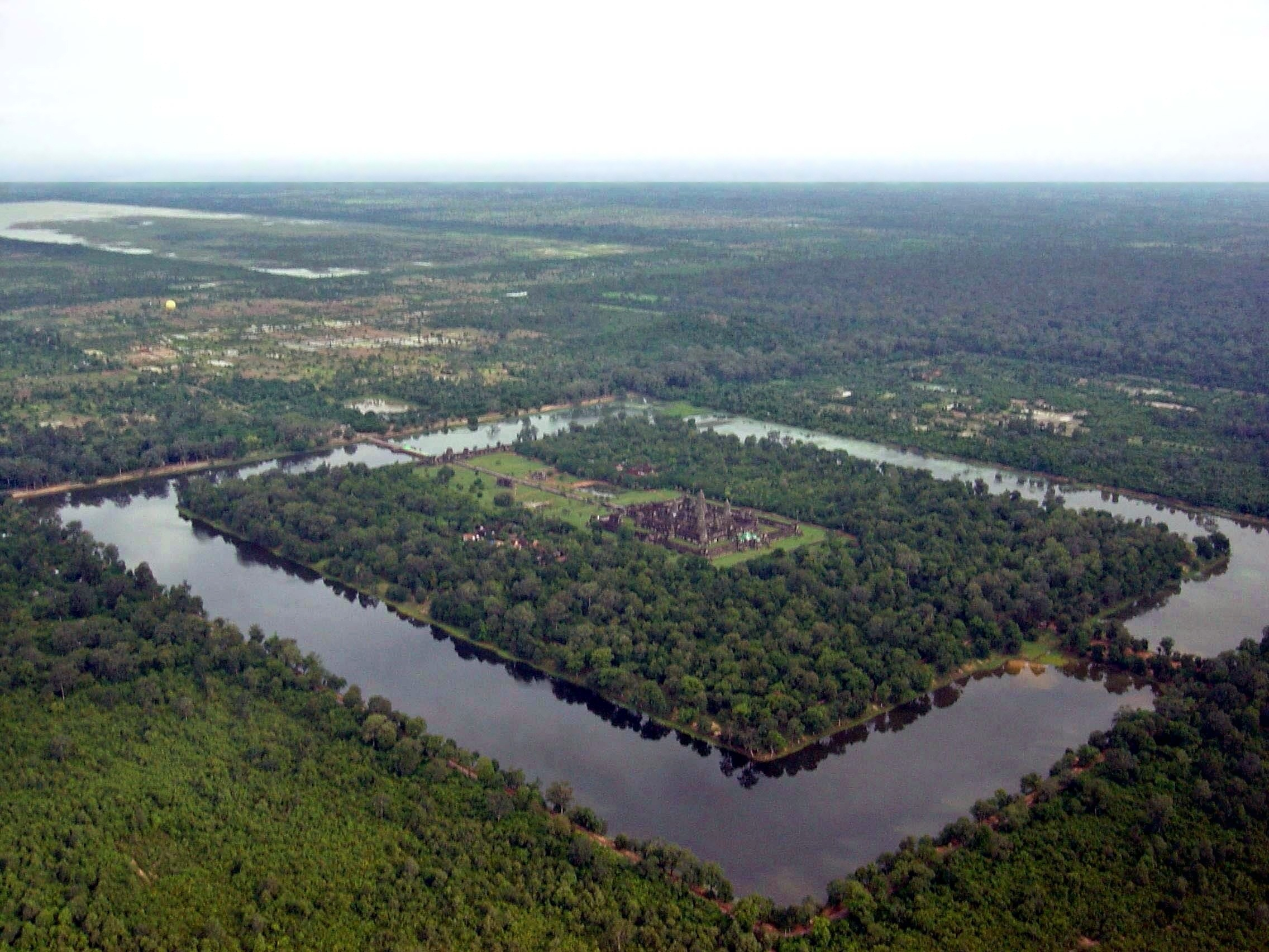 The temple of Angkor Wat, Cambodia from the air